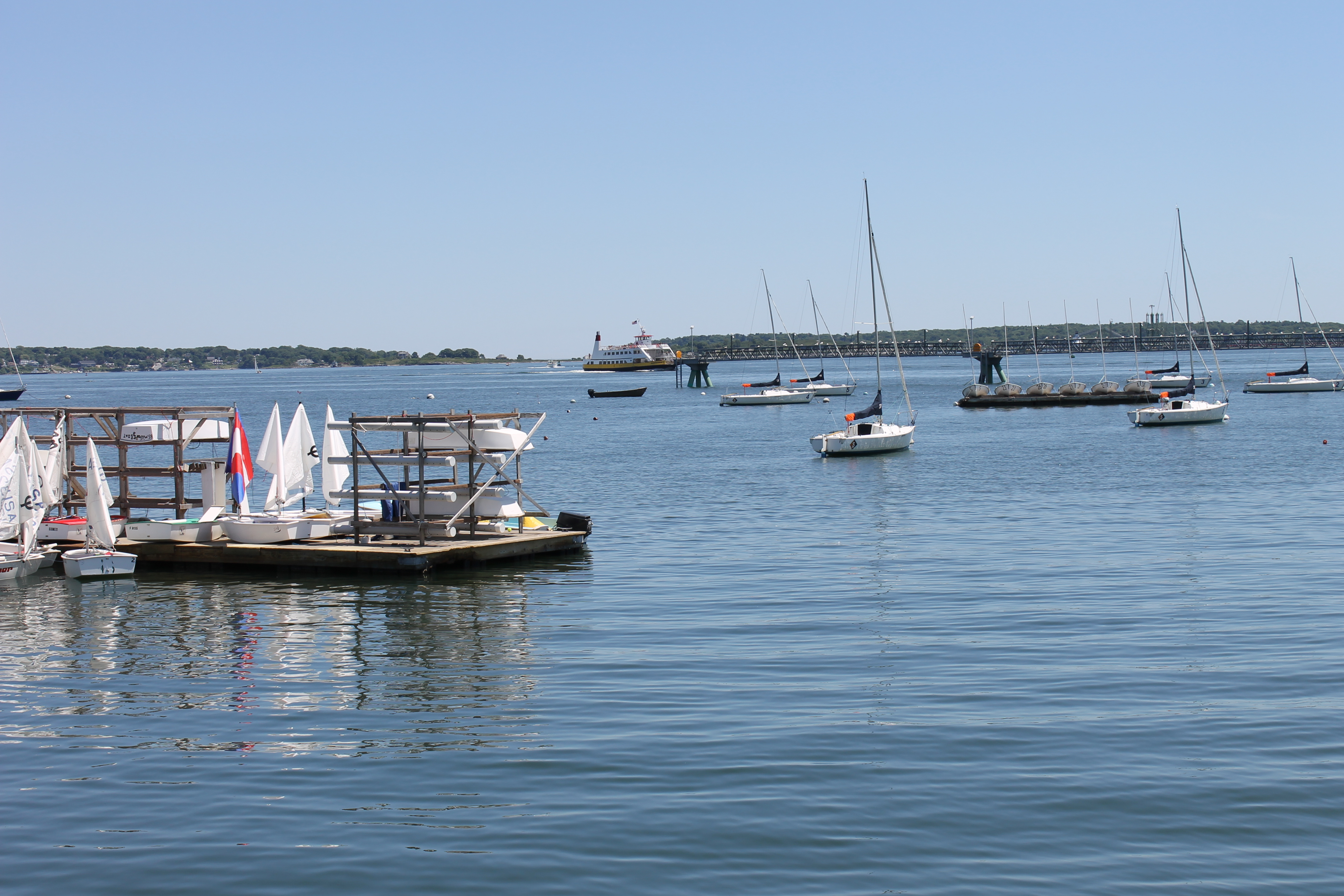 I took photo at Portland, ME, water front with Canon camera.